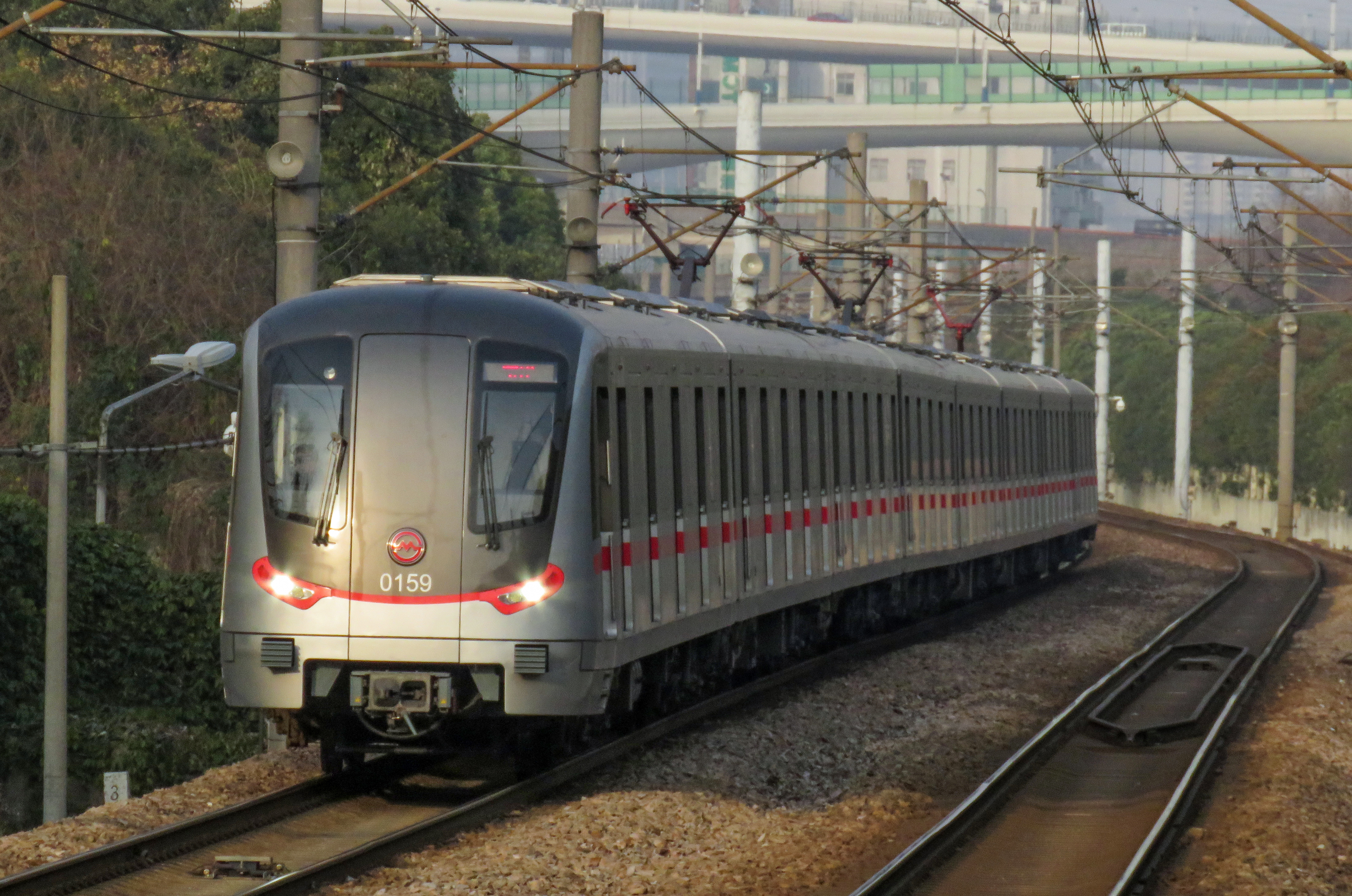 Better before noon... After all, this train is sooooo MTResque!